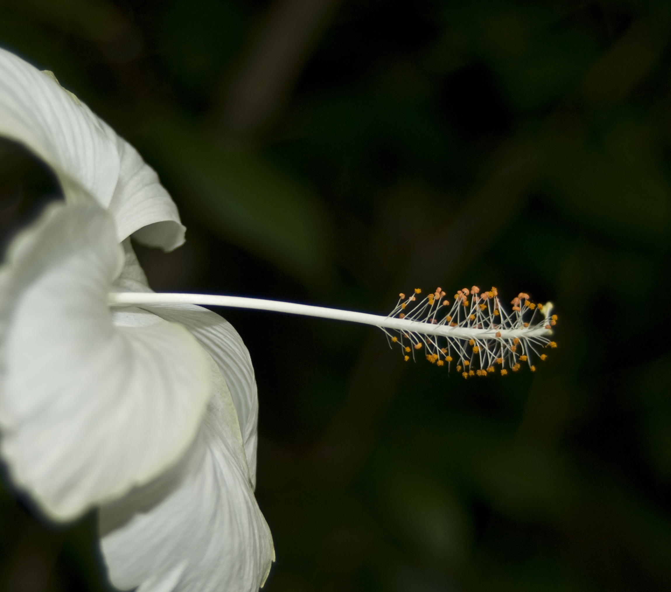 flower